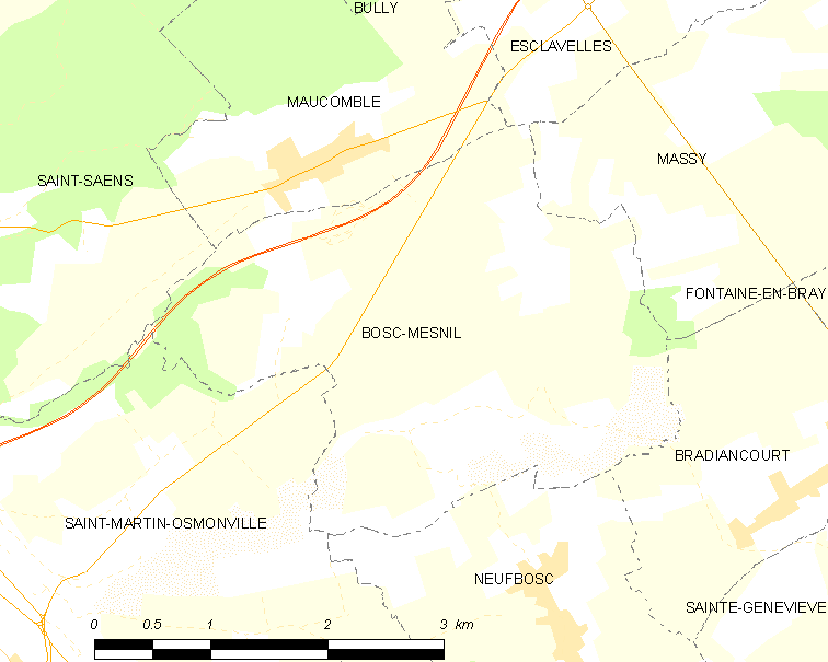 Map of French municipality Bosc-Mesnil